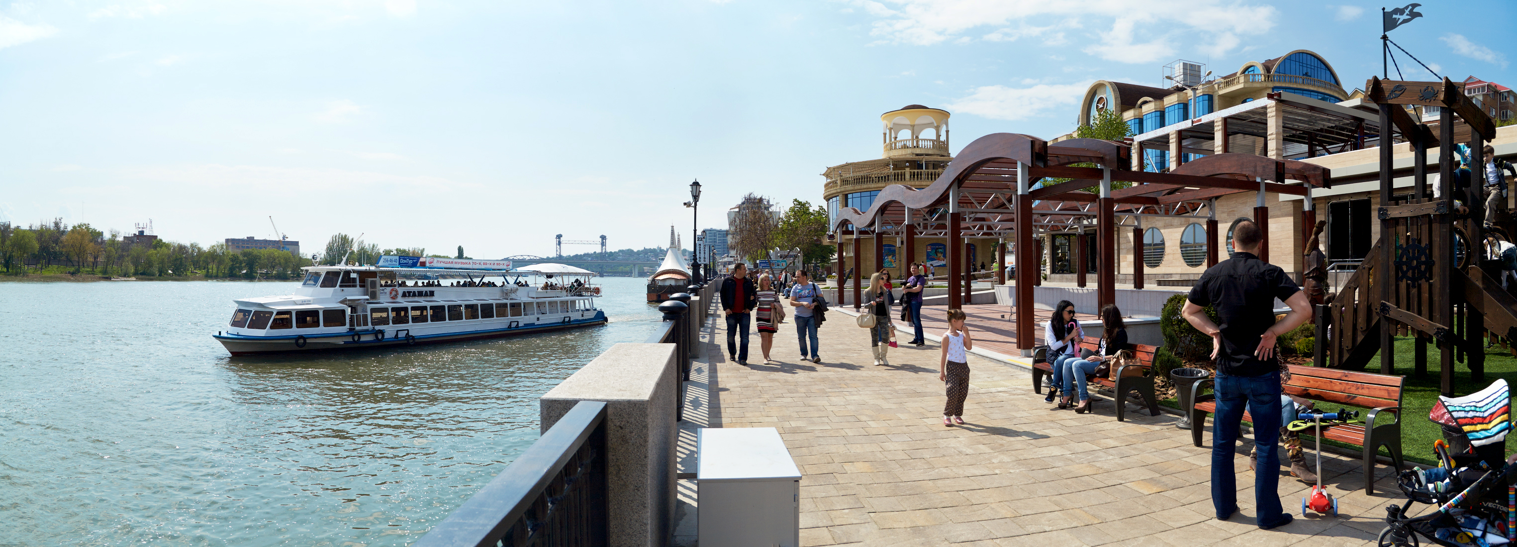 Rostov-on-Don